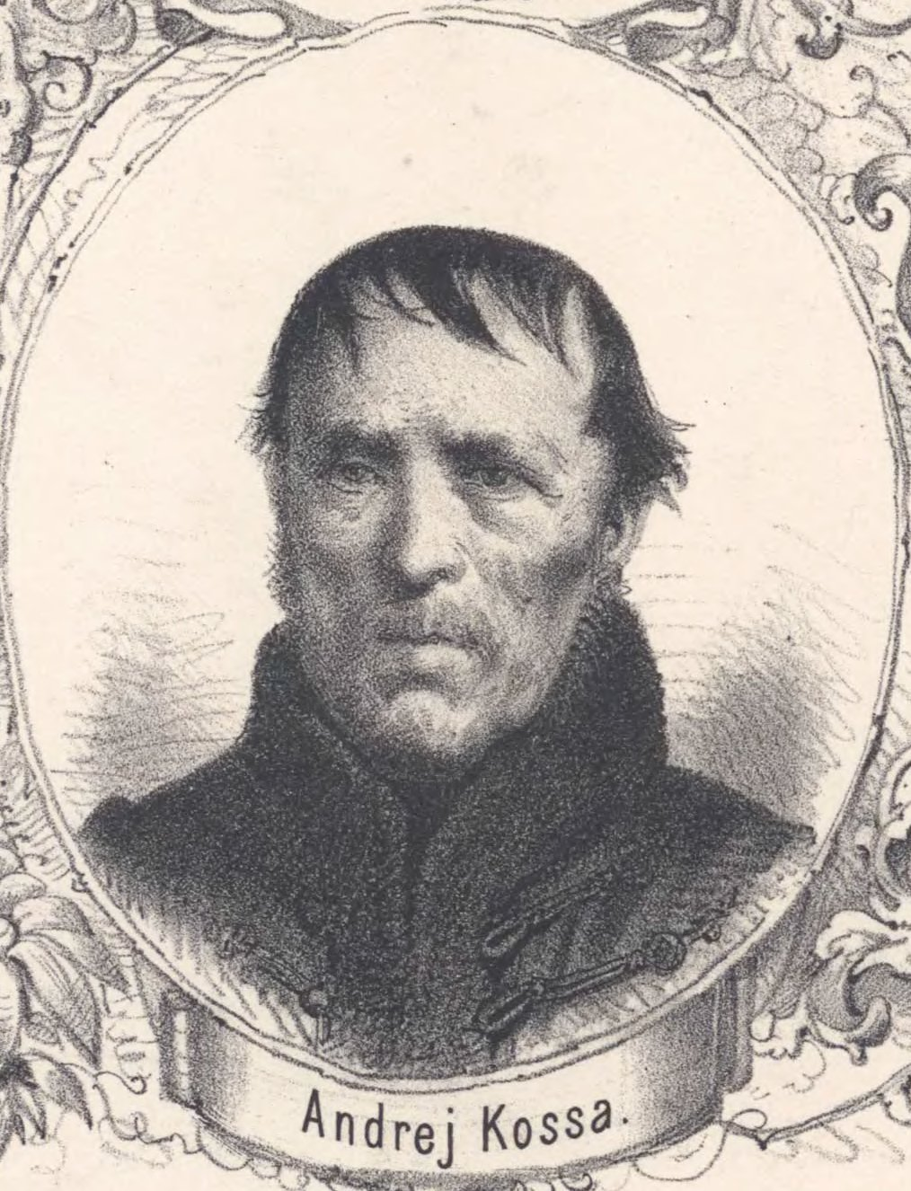 Portrait of Andrej Kossa (1800-1887), mayor (or vogt) of Martin in Slovakia. Cropped from a gallery of Slovak celebrities.